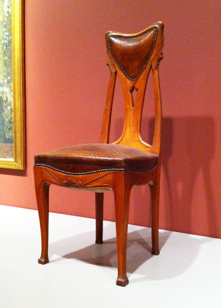 Side chair designed in 1900 by Hector Guimard. Located at the Art Institute of Chicago, European Decorative Arts Gallery 245.